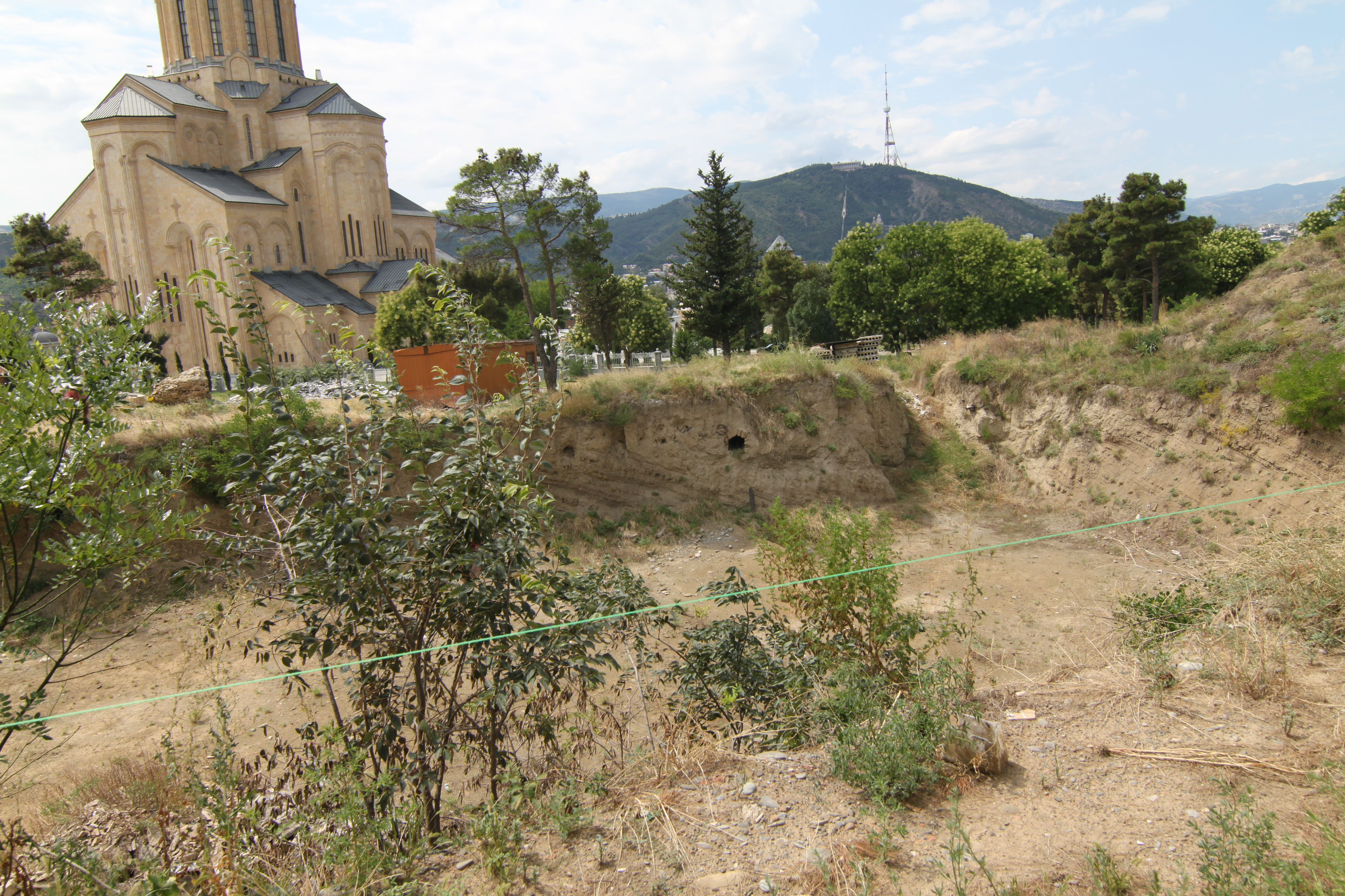 Tombs (center, brick-enclosed hole) exposed by excavations at the site of Khojivank, the Armenian cemetery of Tbilisi. Picture taken from near the entrance to the Armenian Pantheon of Tbilisi. The Sameba Cathedral was built on top of the Armenian cemetery, and its construction resulted in the destruction of thousands of such tombs.